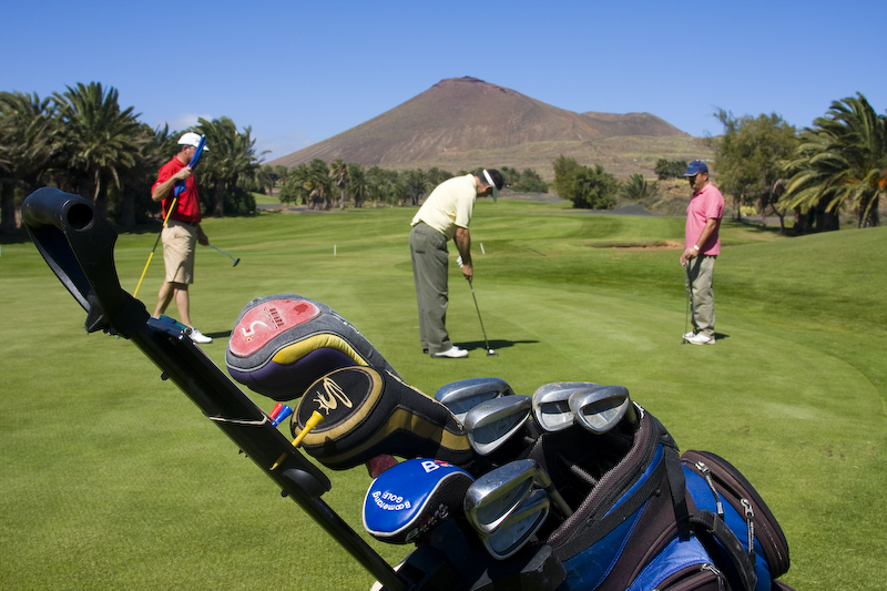 Golf Costa Teguise, Sands Beach Hotel, Lanzarote